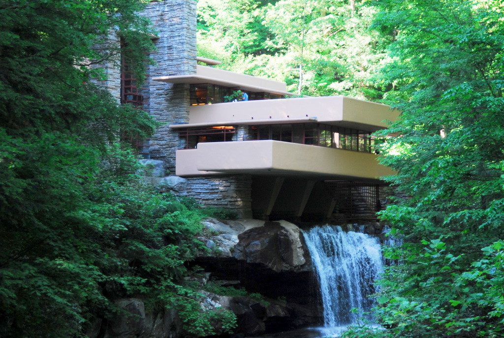 Fallingwater